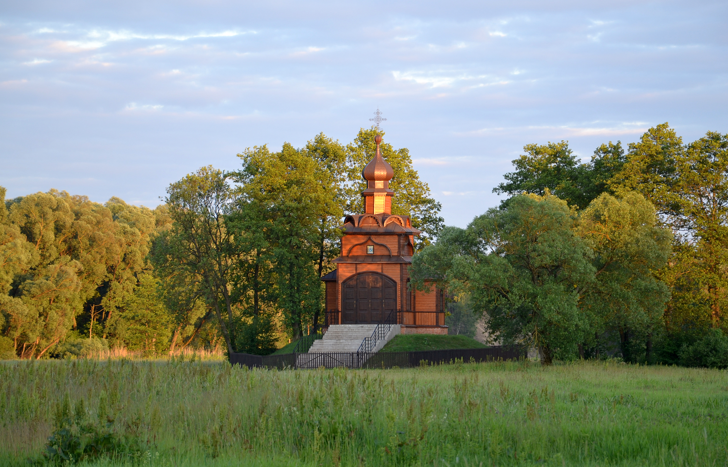 Holy Spirit chapel in Jabłeczna (Яблочина), Poland